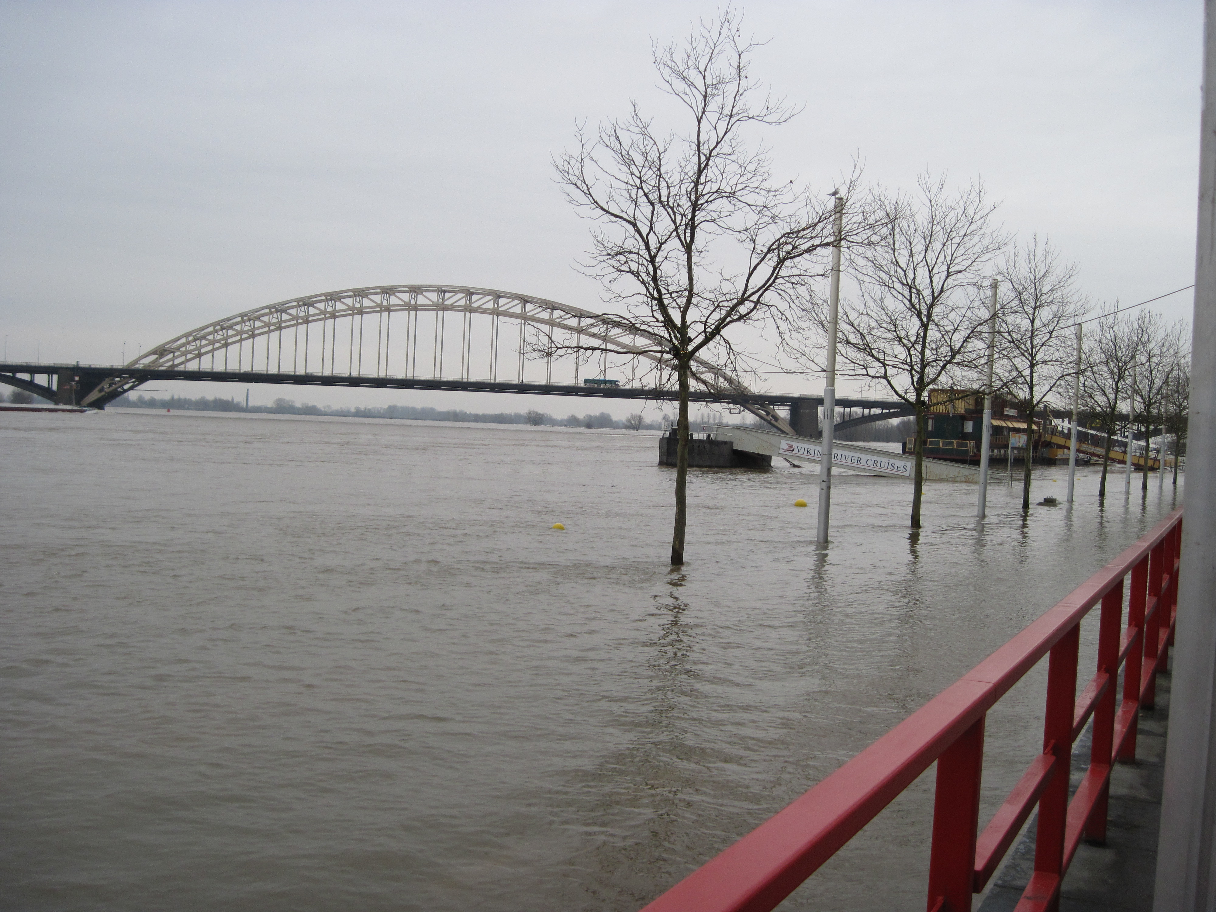 Waalbrug, Nijmegen